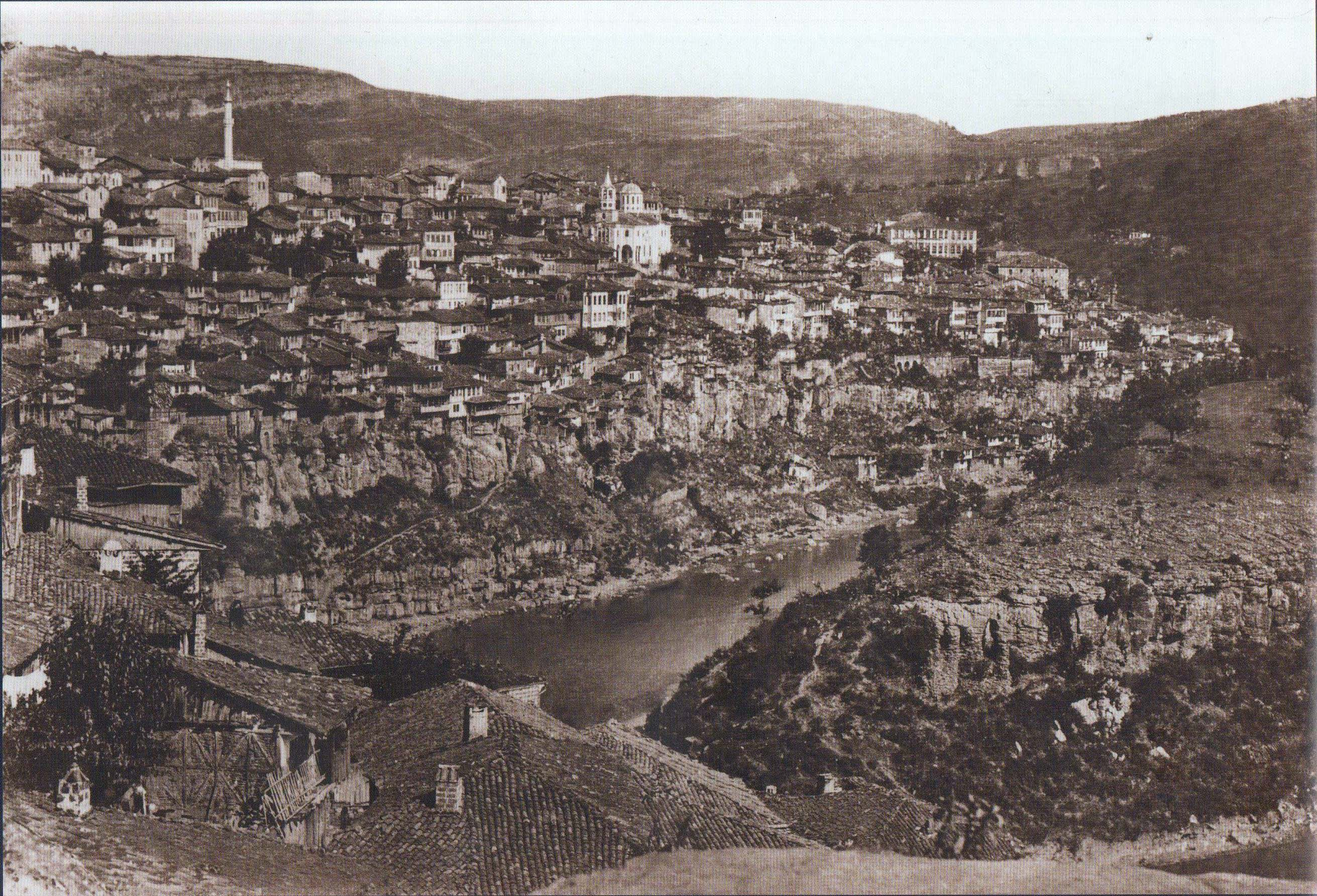 View of Tyrnovo.